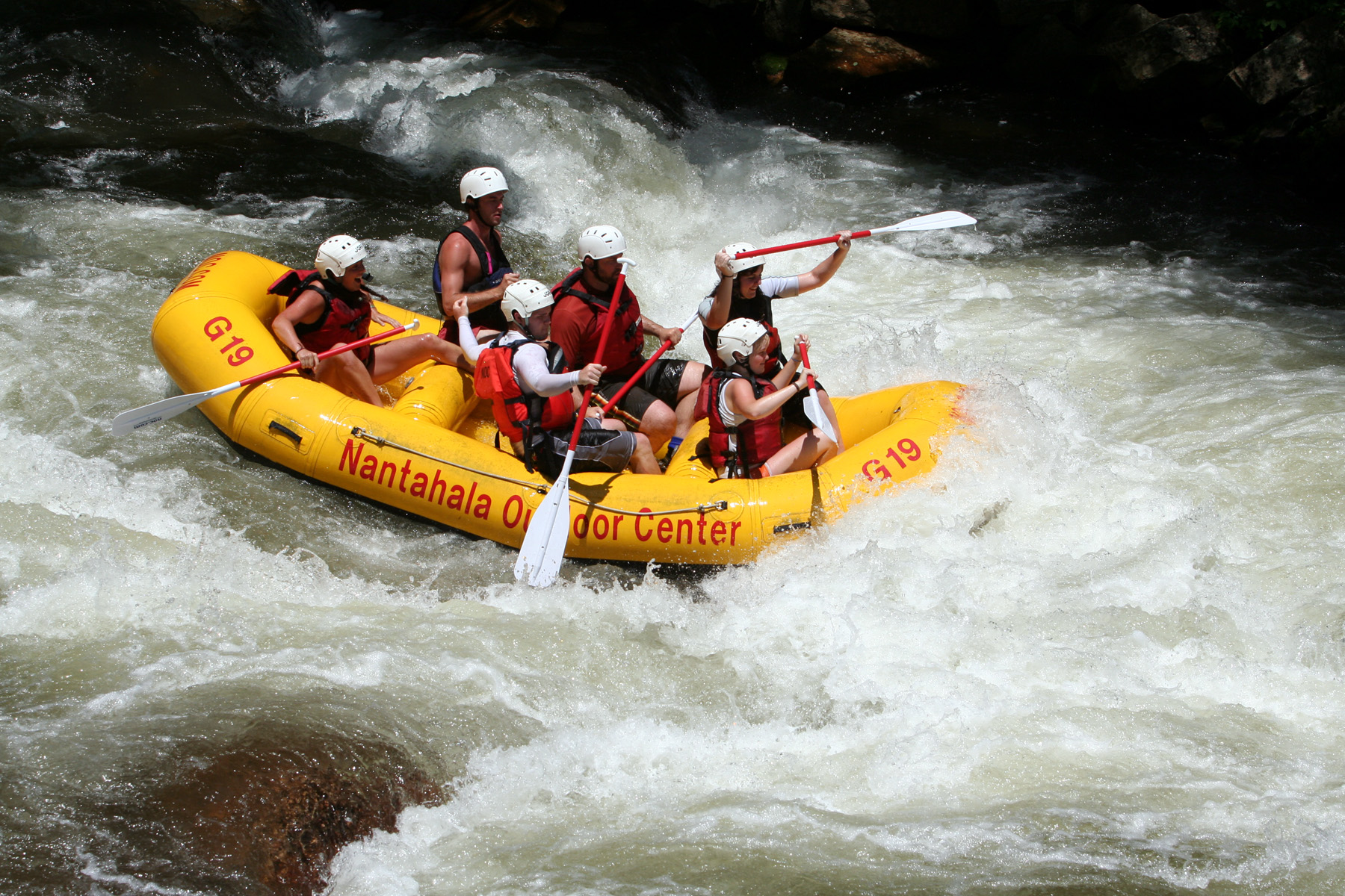 A raft on Nantahala River (original flickr title: "Excited rafters")